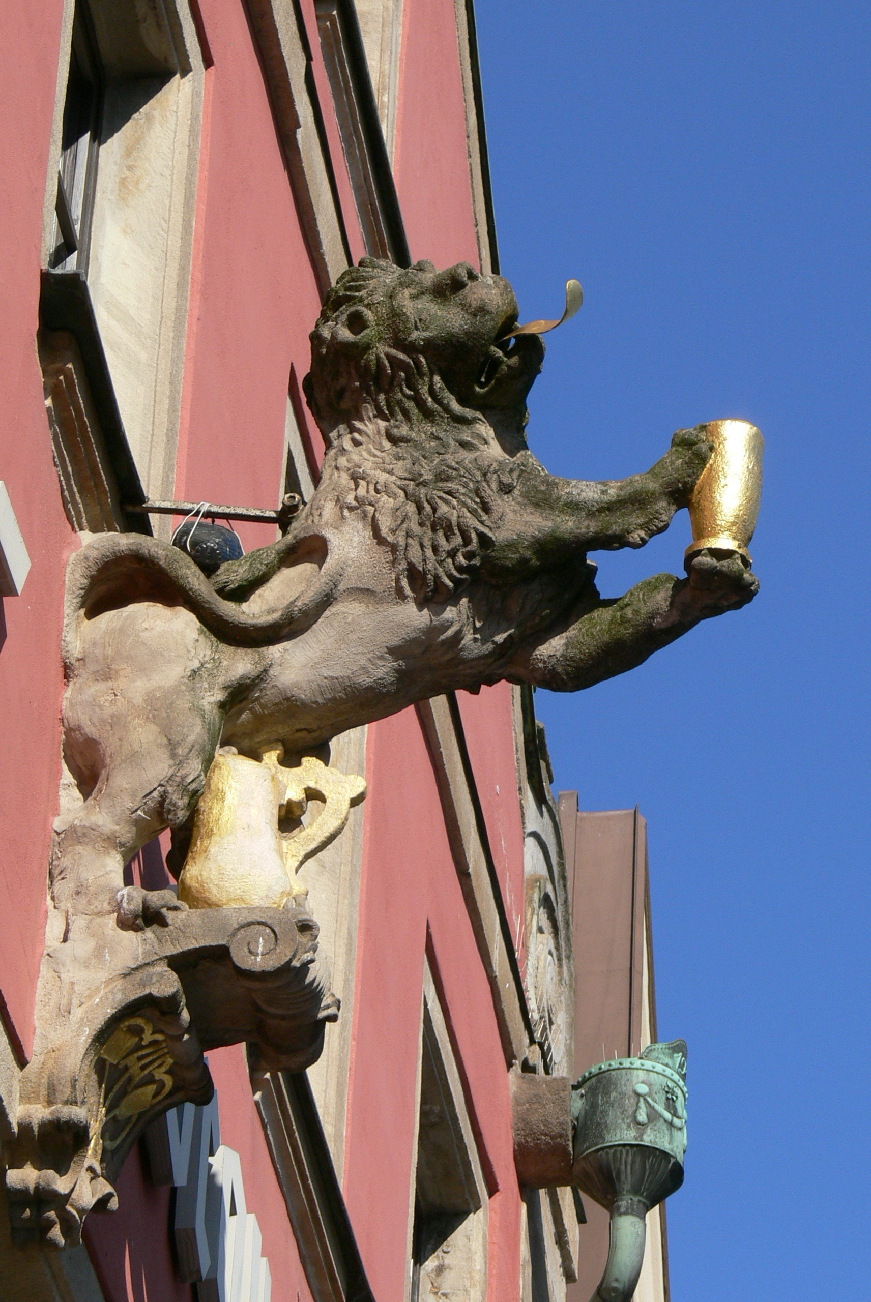 Weißenburg ( Bavaria ). Luitpold street Nr.3: House sign "Golden Lion".